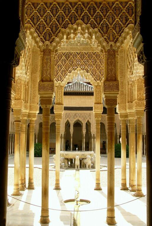 The name Alhambra comes from an Arabic root which means red or crimson castle, perhaps due to the hue of the towers and walls that surround the entire hill of La Sabica which by starlight is silver but by sunlight is transformed into gold. But there is another more poetic version, evoked by the Moslem analysts who speak of the construction of the Alhambra fortress by the light of torches, the reflections of which gave the walls their particular coloration. Created originally for military purposes, the Alhambra was an alcazaba (fortress), an alcázar (palace) and a small medina (city), all in one.